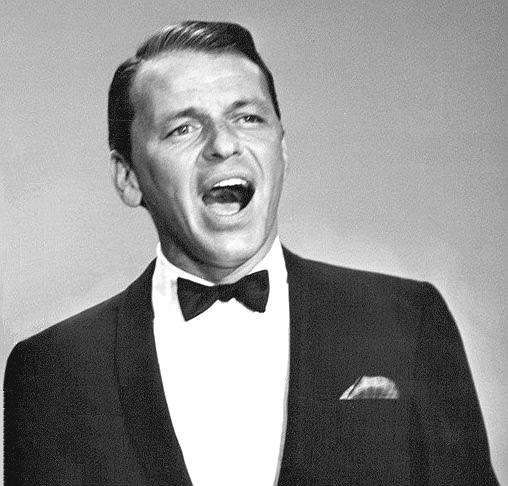 Photo of Frank Sinatra performing on ‘’The Judy Garland Show’’ in 1962. This was a stand-alone special originally broadcast Feb. 25, 1962. It was not an episode of Garland's subsequent 1963-64 TV series.